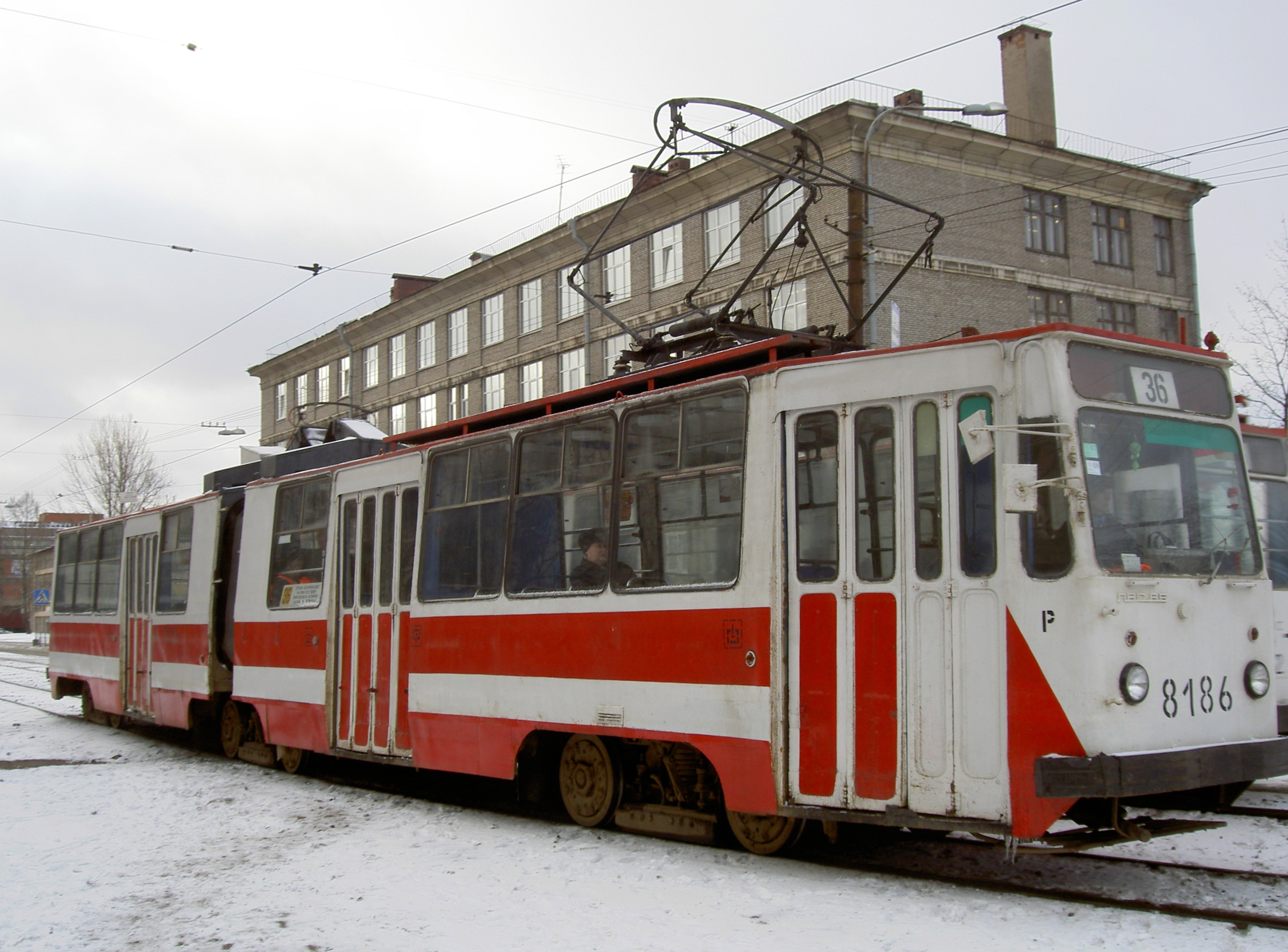 Trams at Kronshtadskaya street in Saint Petersburg.